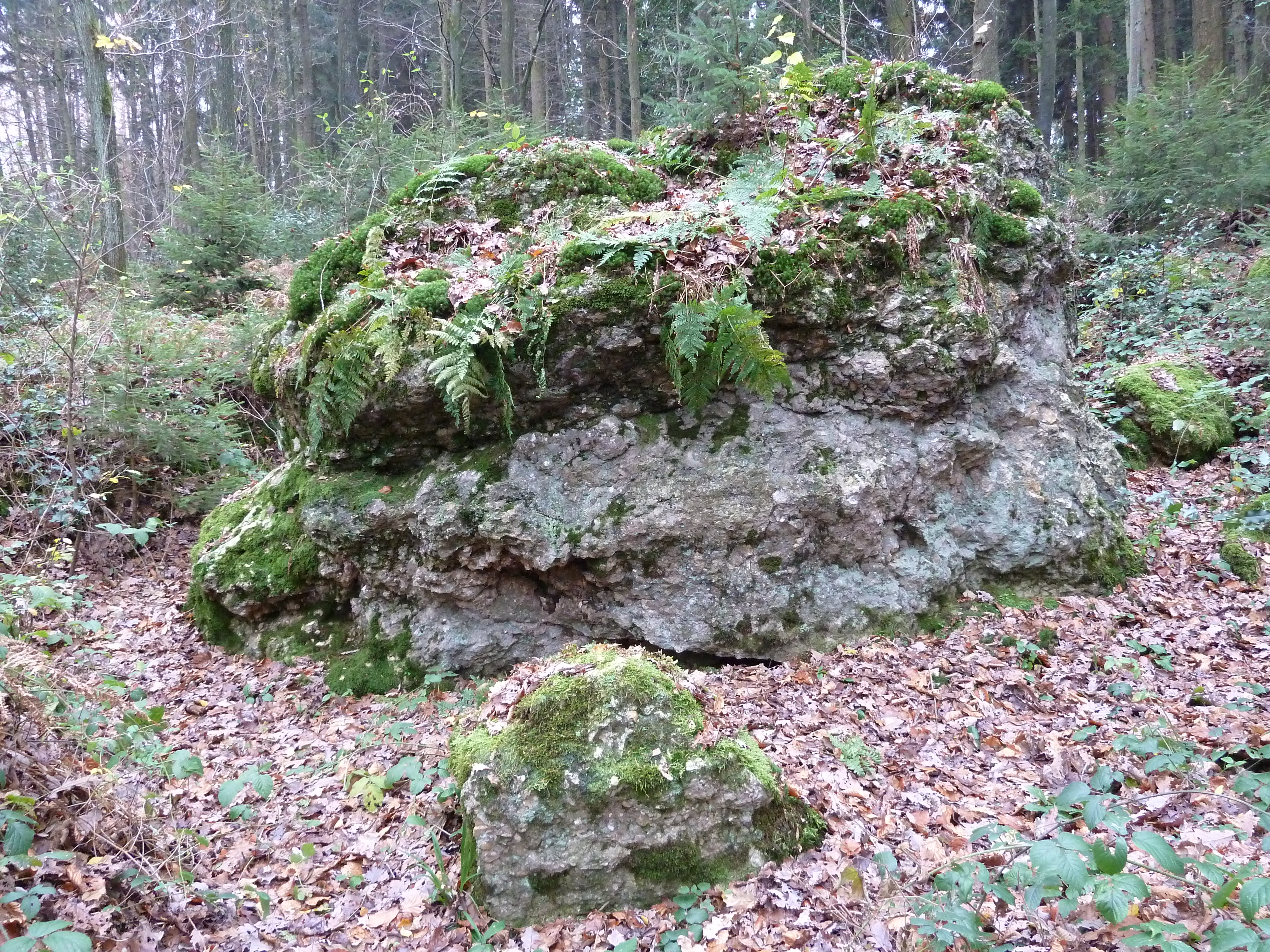 Geological monument Sterrenstenen Vijlenerbosch, Vaals, Limburg, the Netherlands